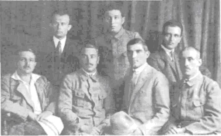 IMARO revolutionary/ies